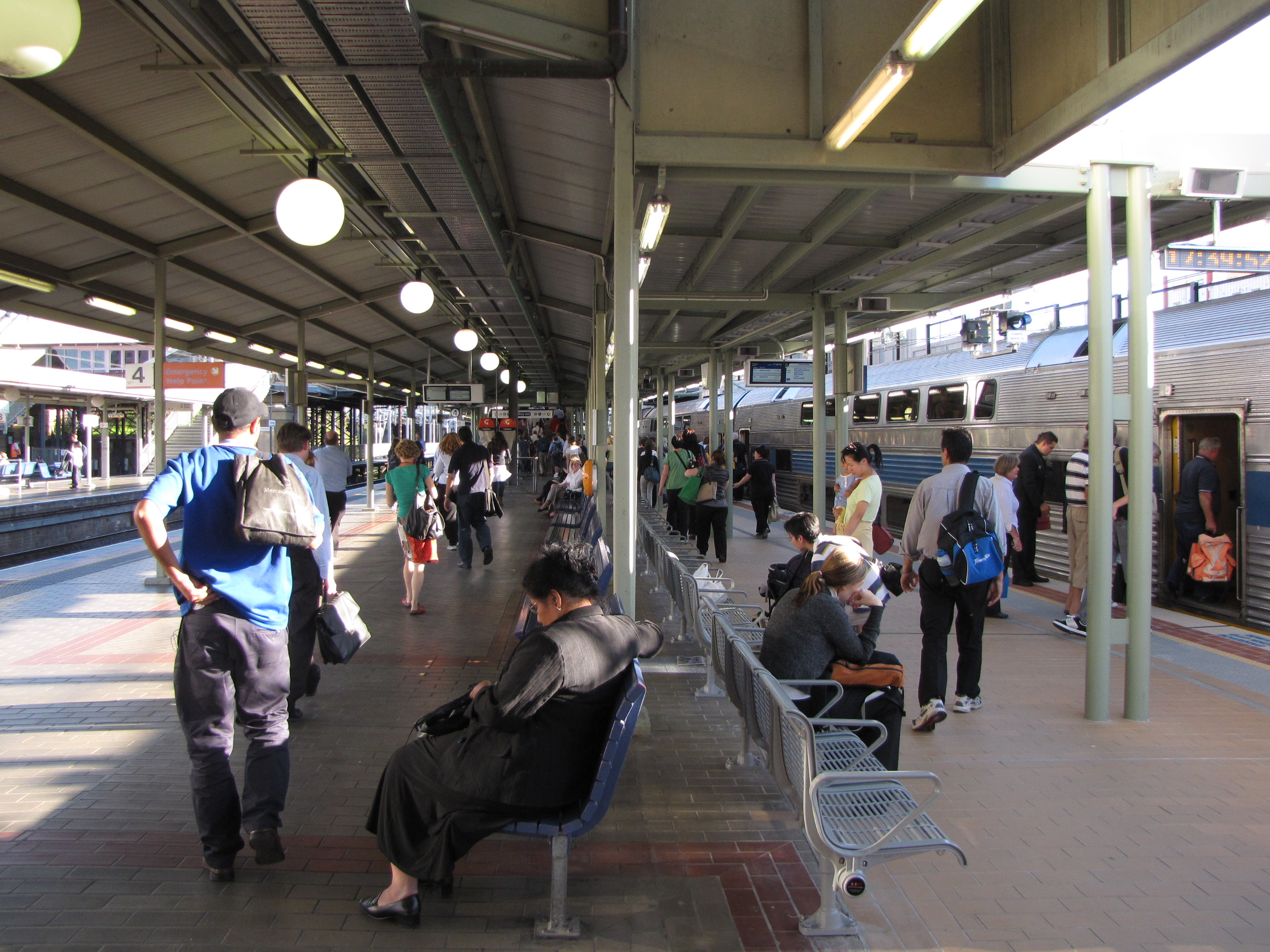 Hornsby Railway Station, NSW